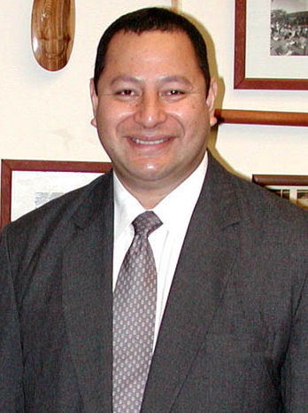 former Prime Minister of Tonga Ulukalala Lavaka Ata (cropped from original picture)